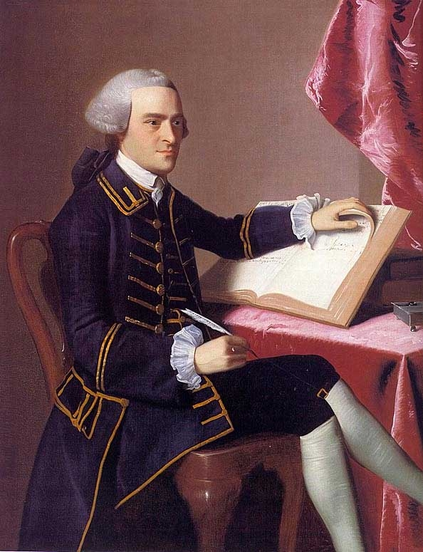 A portrait of John Hancock (23 January 1737 [O.S. 12 January 1736] – 8 October 1793), one of the signers of the United States Declaration of Independence.